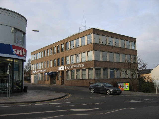 BBC Radio Swindon. Split personality, 2 radio stations in one, Radio Swindon and Radio Wiltshire